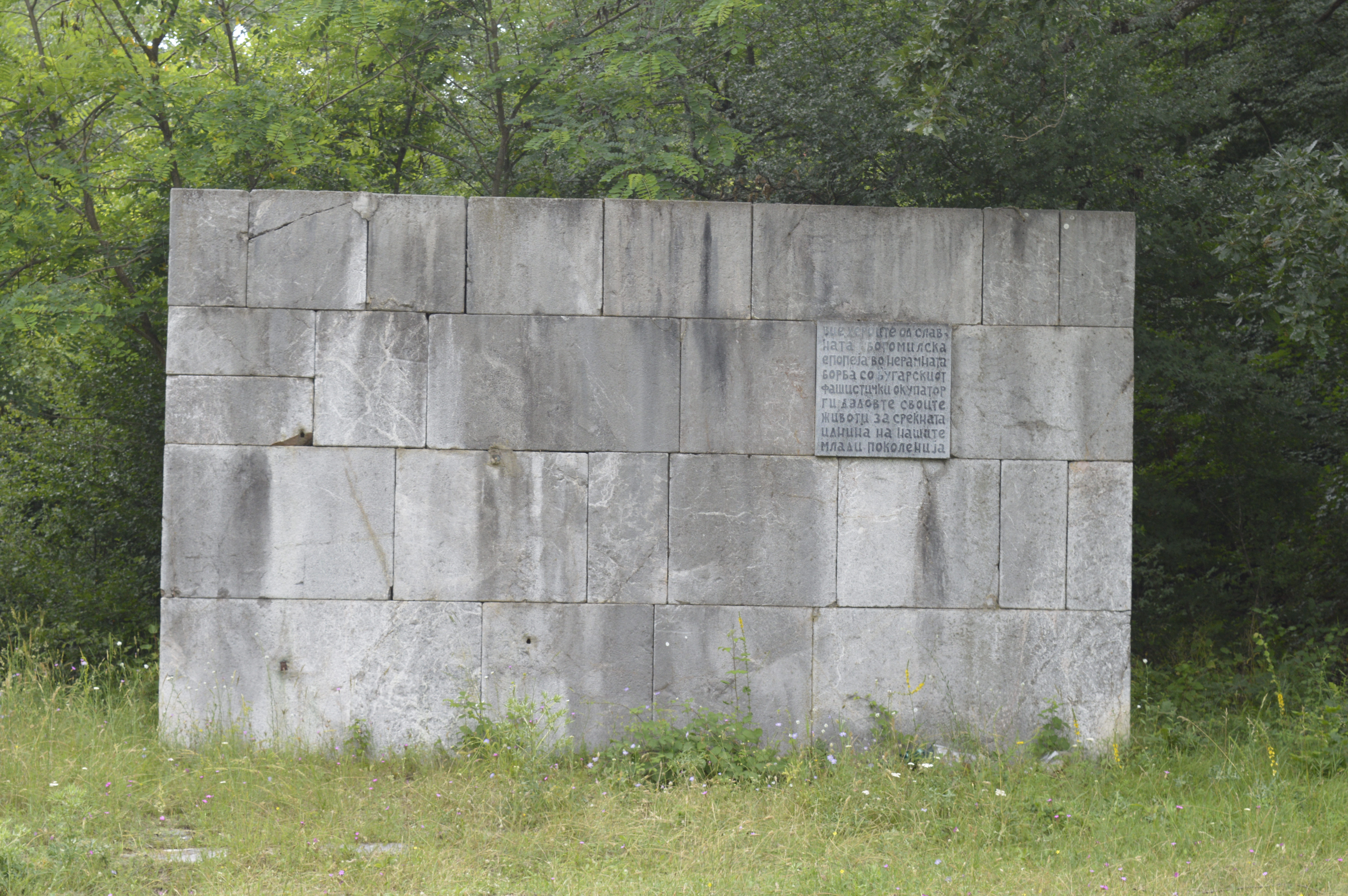 Part of the Wikiexpedition to Azot